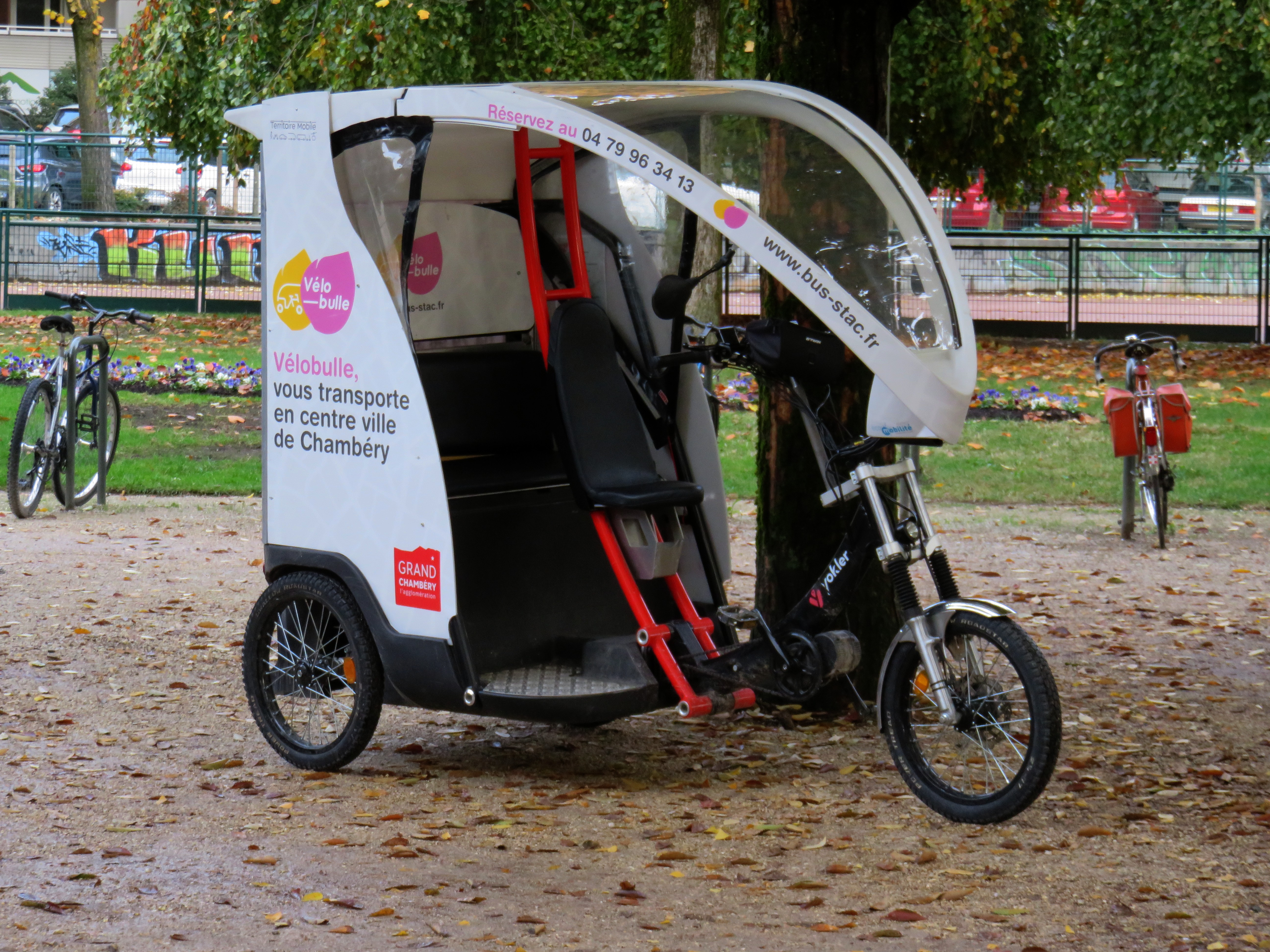 A Yokler X (Vélobulle) parked in the parc du Verney (Chambéry, France) on November 8, 2018.